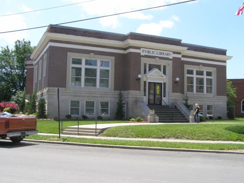 Scottsburg, Indiana Carnegie Library